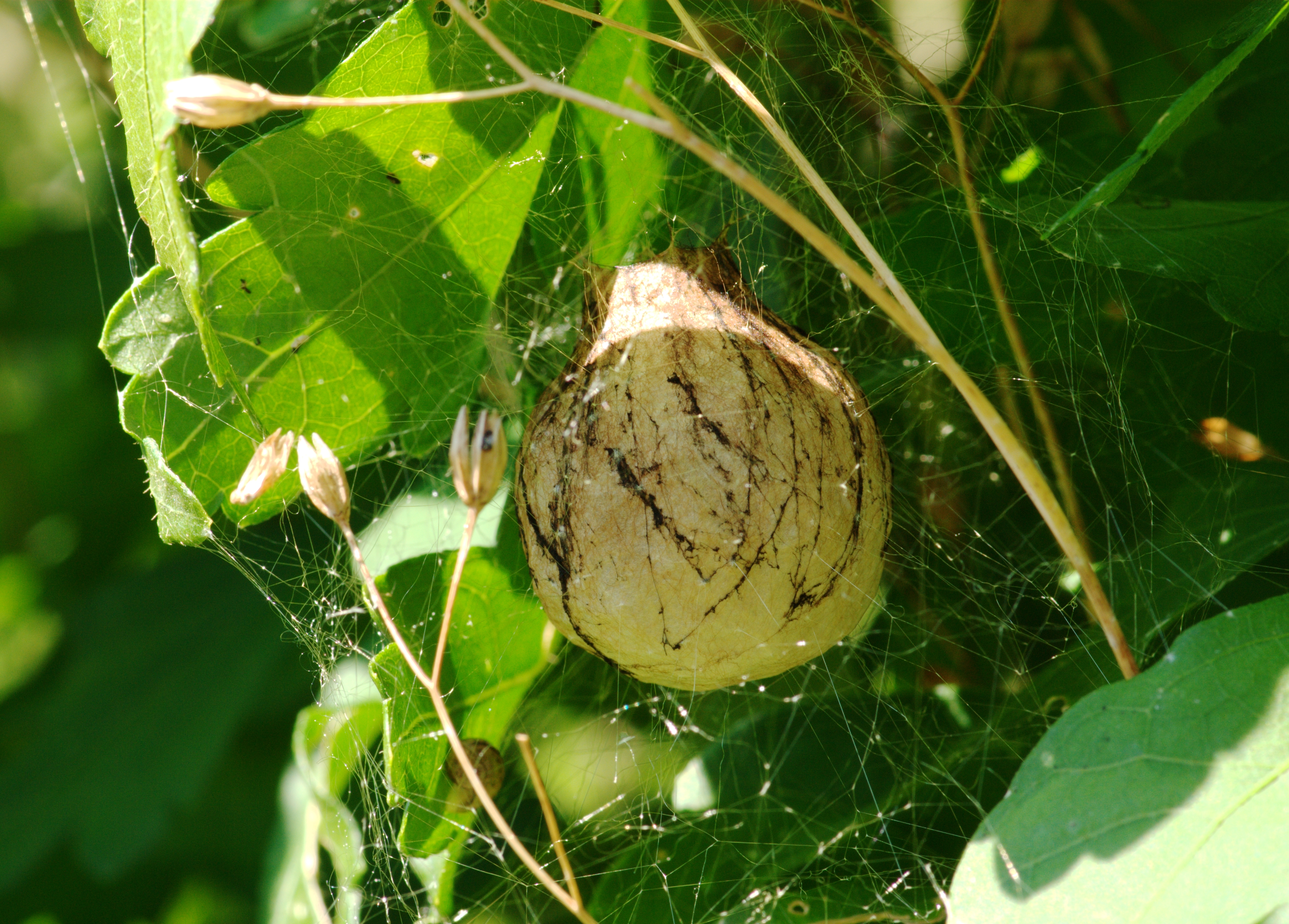 Nest of a female spider Argiope bruennichi (wasp spider), taken at St-Pierre-le-Vieux, in the Marais Poitevin, in Vendée, France.